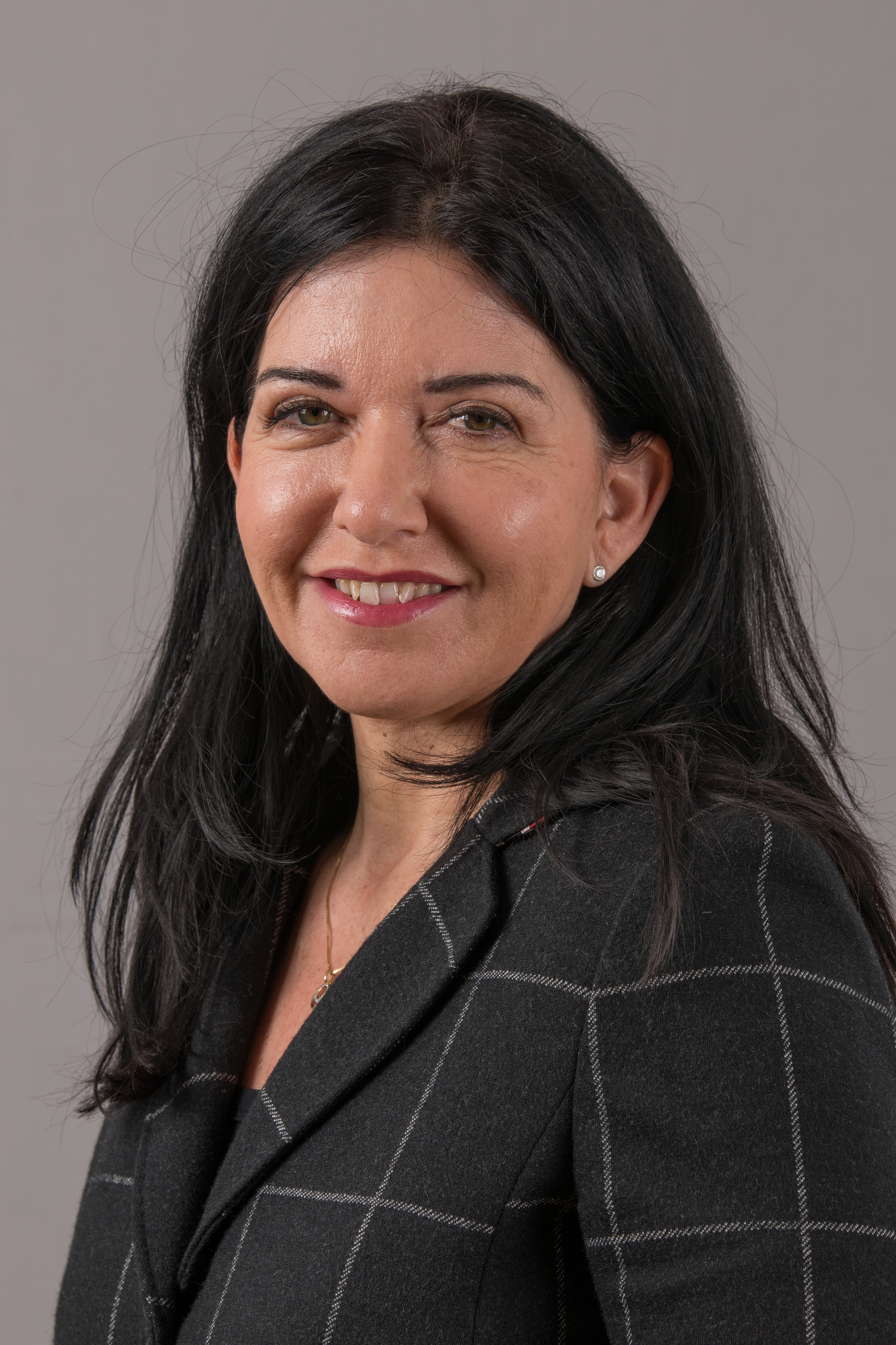 13/12/17, Bregenz/Vorarlberg, Landtagsprojekt Vorarlberg. Picture shows Manuela Auer (SPÖ), delegate to the Vorarlberger Landtag since 2014